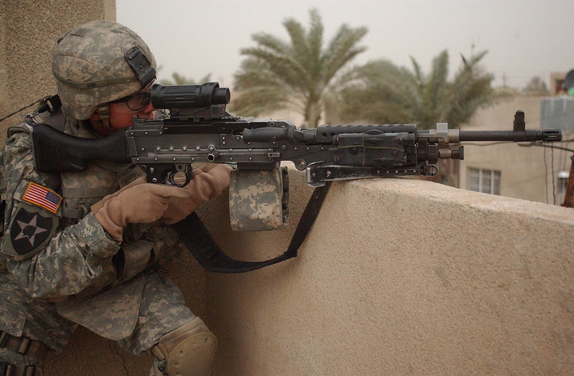 Description: U.S. Army Spc. Kevin Kane, from Bravo Company, 1st Battalion, 23rd Infantry Regiment, 2nd Infantry Division, pulls security on top of a roof during a surveillance of neighborhoods in Baghdad, Iraq, Feb. 6, 2007. (U.S. Army Photo by Sgt. Tierney Nowland, Released to Public) DoD photo by: SGT. TIERNEY P. NOWLAND Date Shot: 6 February 2007